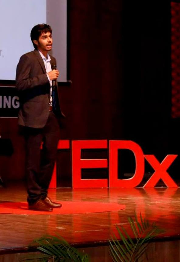 Trishnet Arora at TEDxGGDSDChandigarh